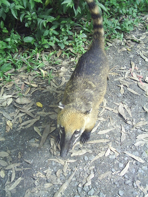 Coati in Ecological Park of Tietê, in region East of São Paulo City.